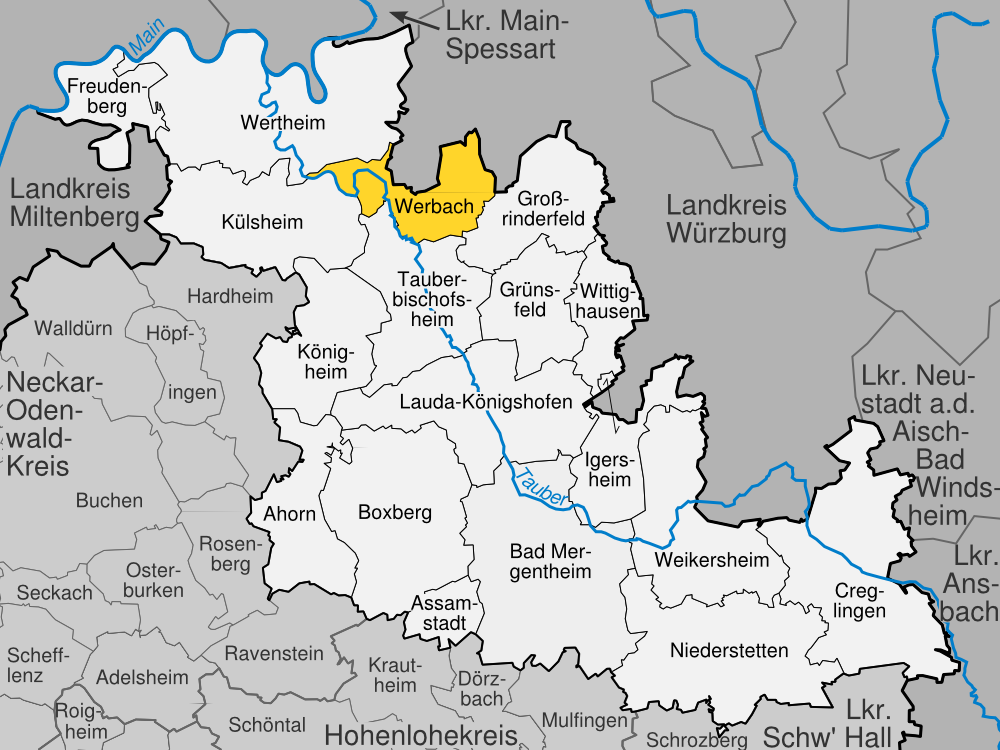 position of Werbach within the Main-Tauber-Kreis, Baden-Württemberg, Germany